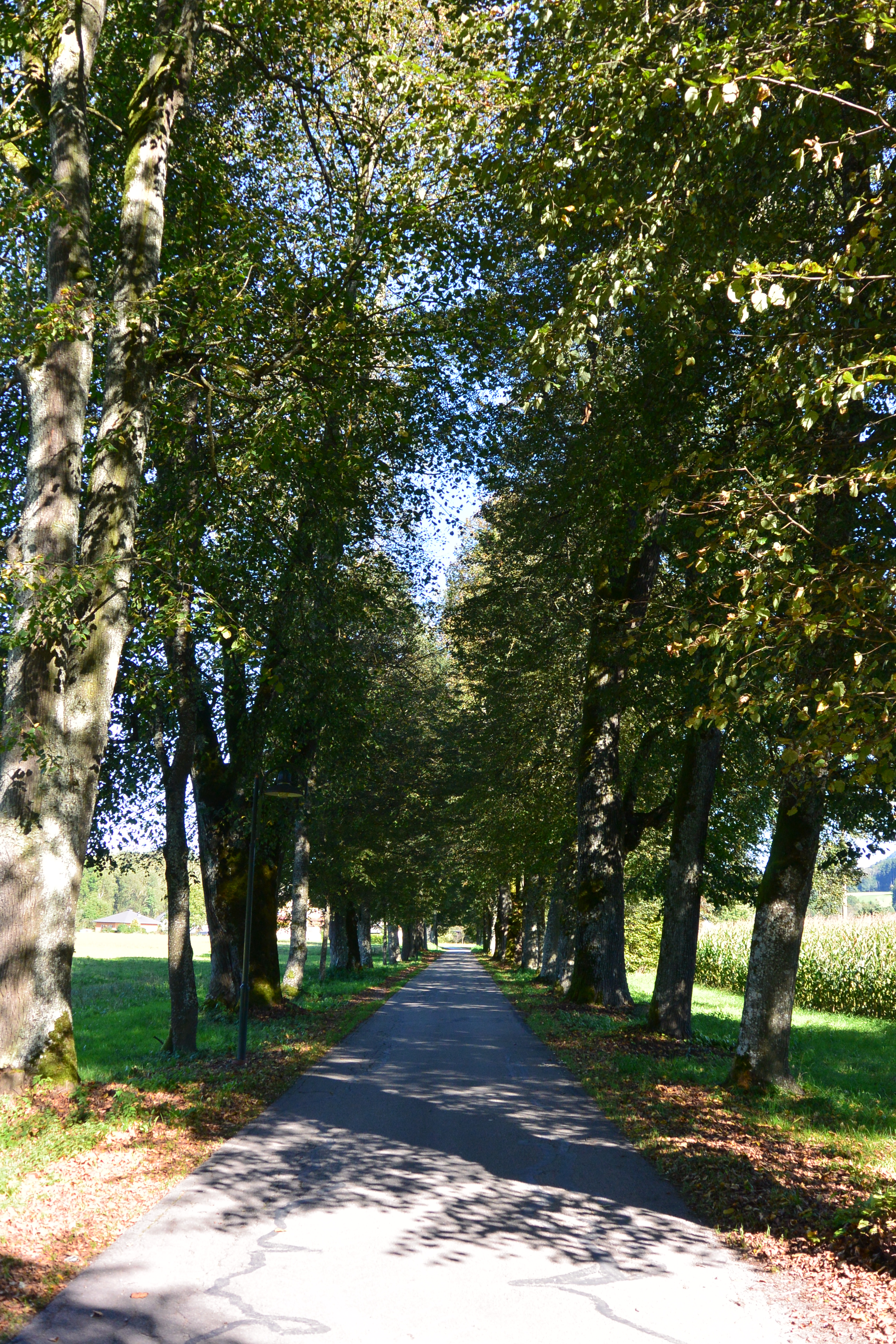 Lime-avenue in the municipality of Rosegg This media shows the natural monument in Carinthia with the ID VL 08.